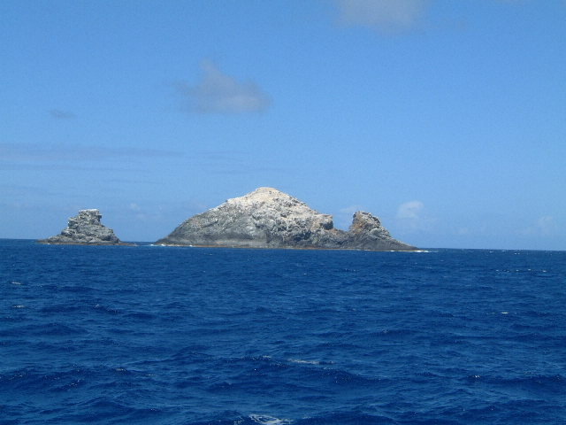 Gardner Pinnacles, Northwestern Hawaiian Islands